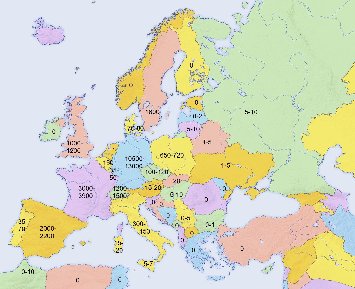 Milvus milvus - World Population (Breeding Pairs)